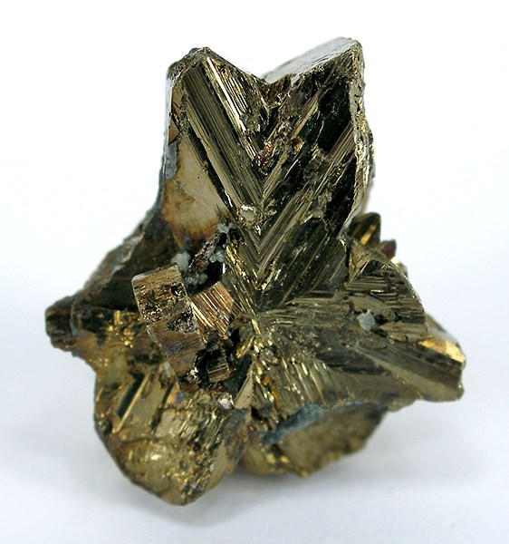 Cubanite Locality: Henderson No. 2 mine, Chibougamau, Nord-du-Québec, Québec, Canada (Locality at ) Size: 1.8 x 1.6 x 0.6 cm. A SHARP crystal of twinned cubanite. Ex. Charlie Key.